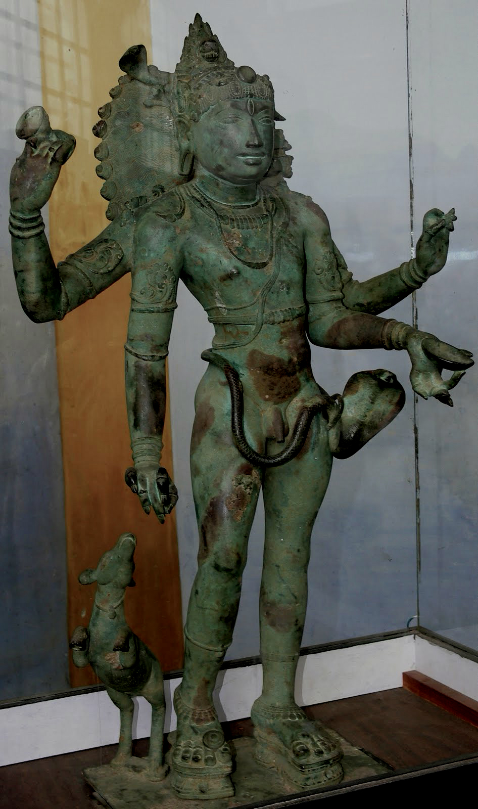 Shiva Bhikshathanar 12th century